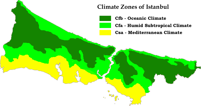 Istanbul climate zones according to the Köppen classification system.